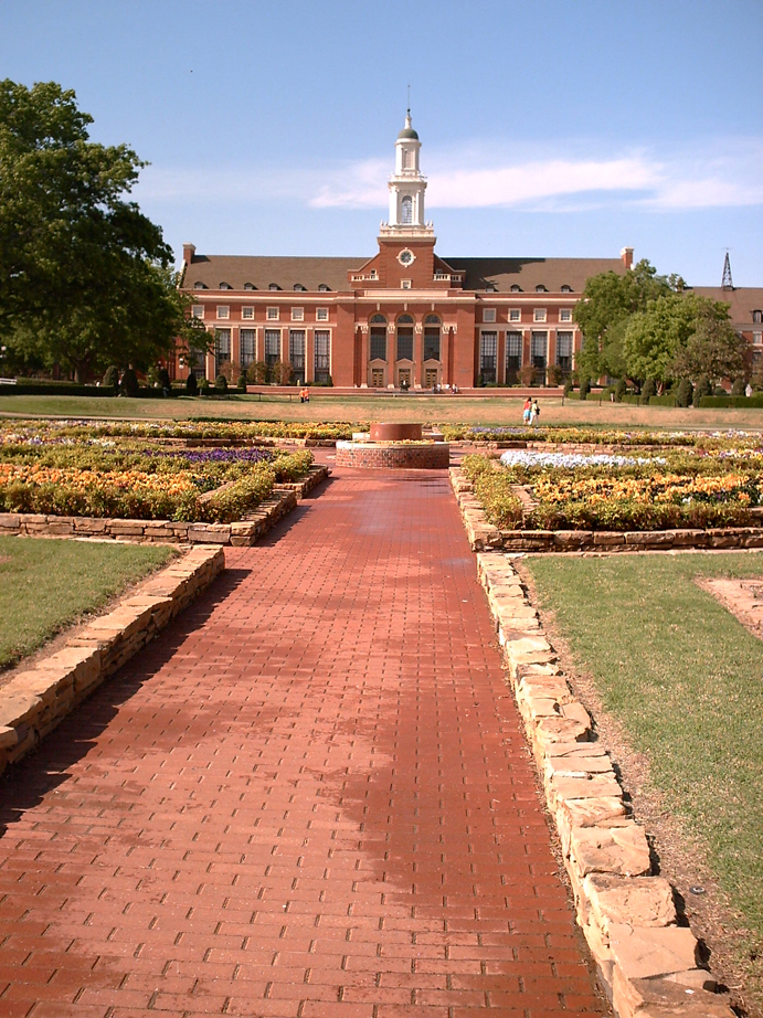 Edmon Low Library at Oklahoma State University - Stillwater, the focal point of the campus. Photo taken April 22, 2006.